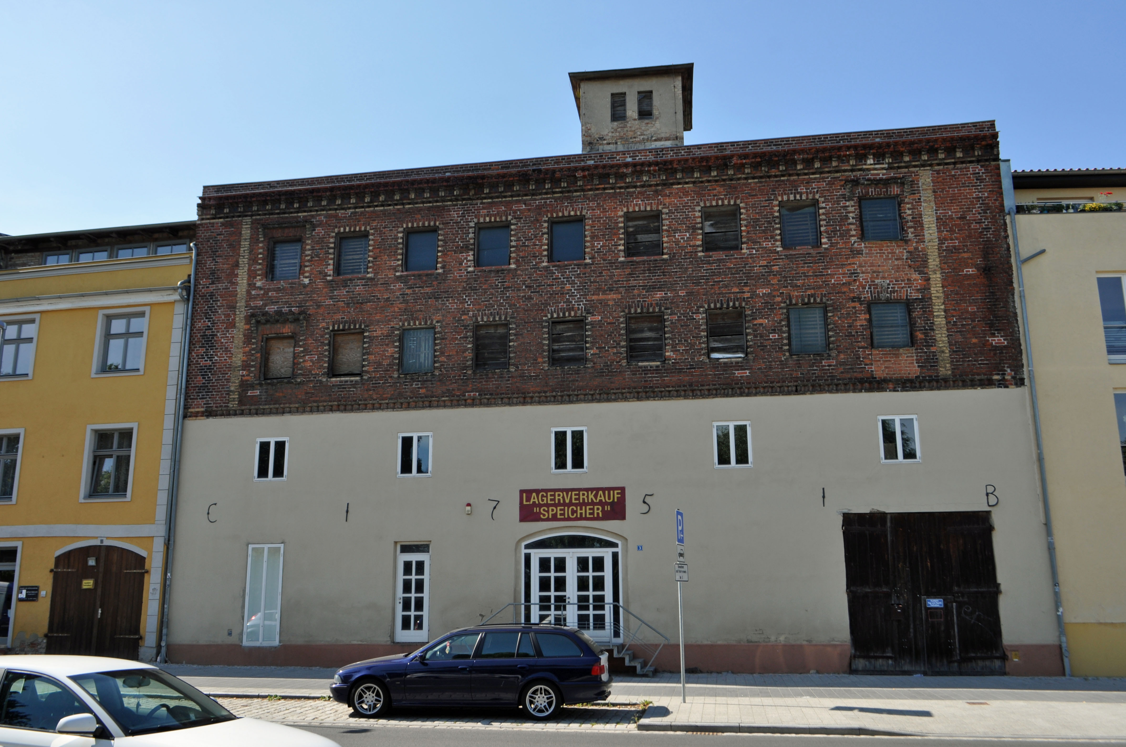 Stralsund, Frankenwall 3 This is a photograph of an architectural monument.